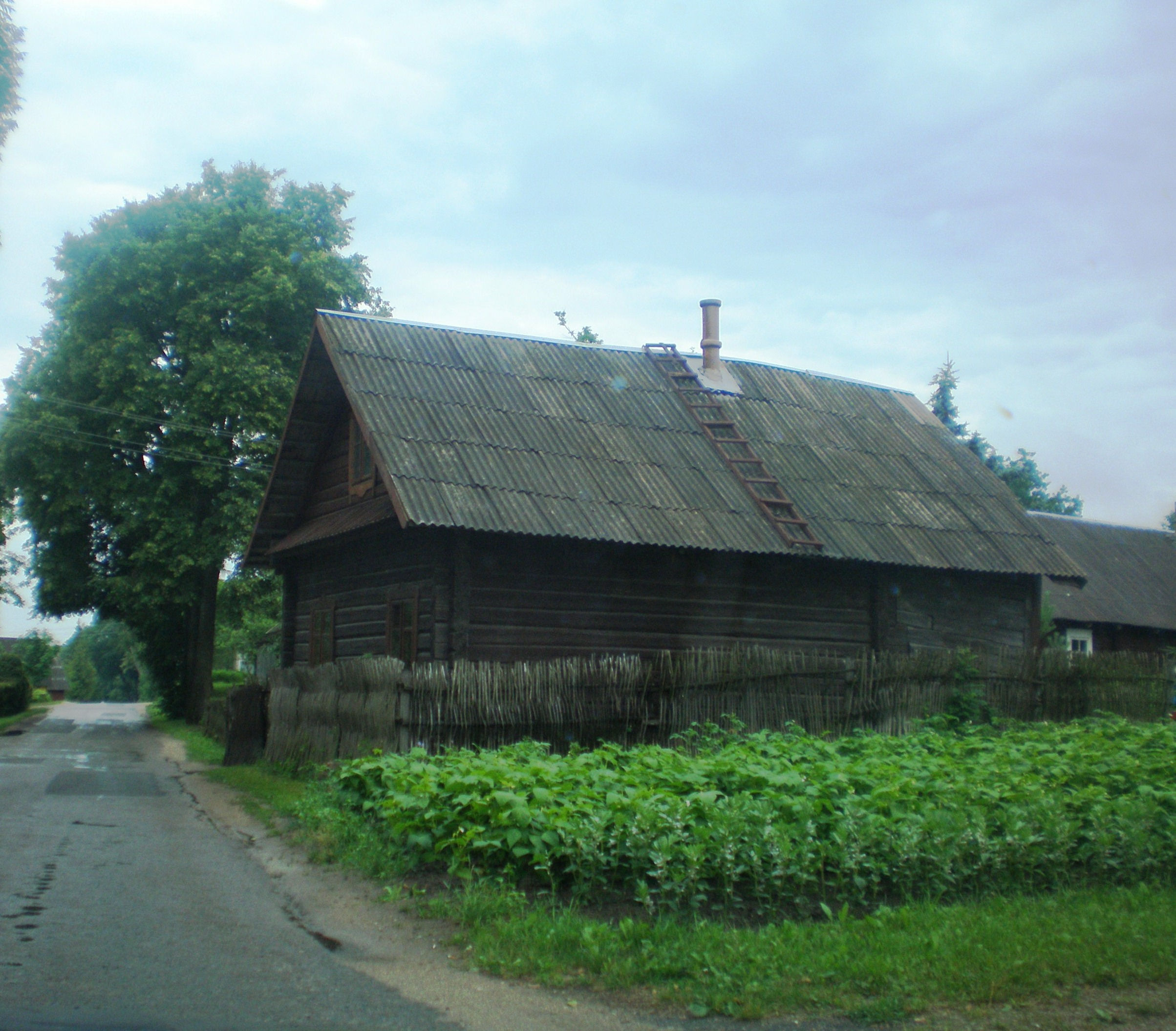 Old house in Kirdeikiai, Utena district, Lithuania